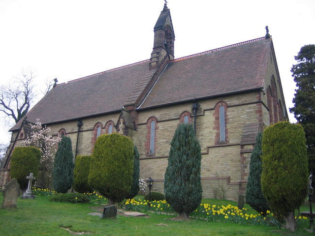 St Bartholomew's parish church, Hints, Staffordshire, seen from the southeast